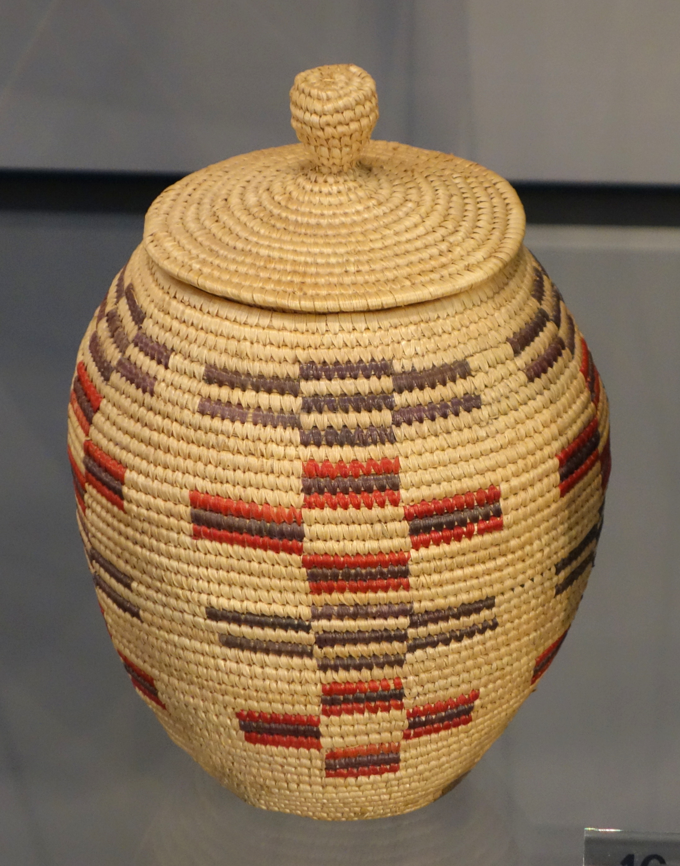 Exhibit in the Chazen Museum of Art, University of Wisconsin-Madison, Madison, Wisconsin, USA. This artwork is old enough so that it is in the public domain.